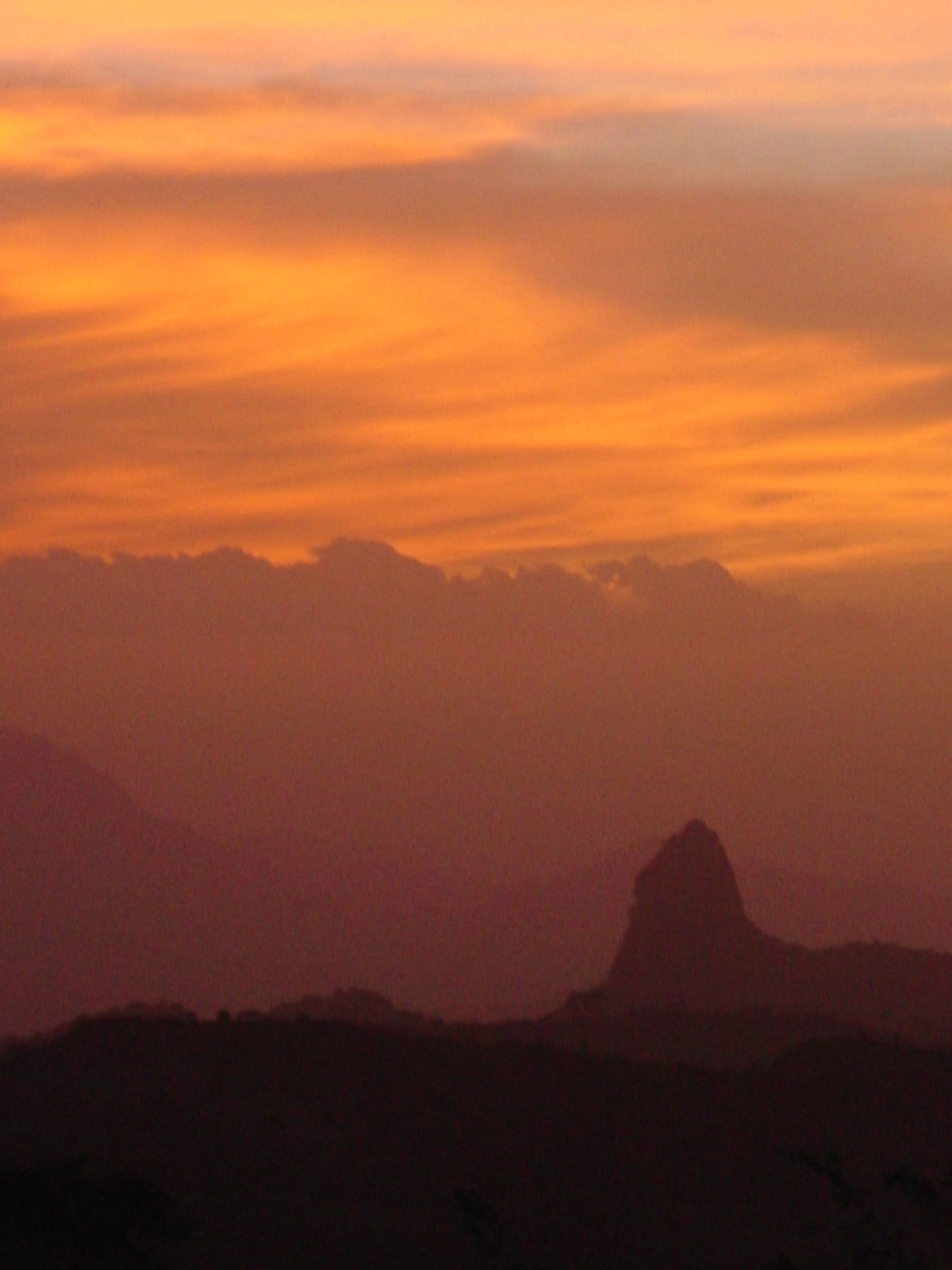 A sunset on the road between Akordat and Keren. From the lowlands to the highlands. Zoba Anseba, Eritrea.